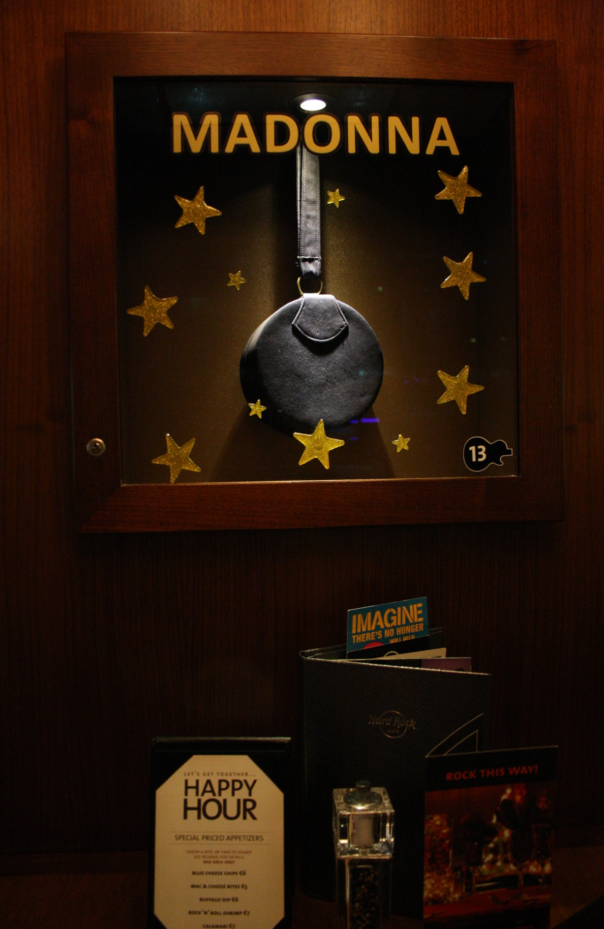 Hard Rock Cafe Florence